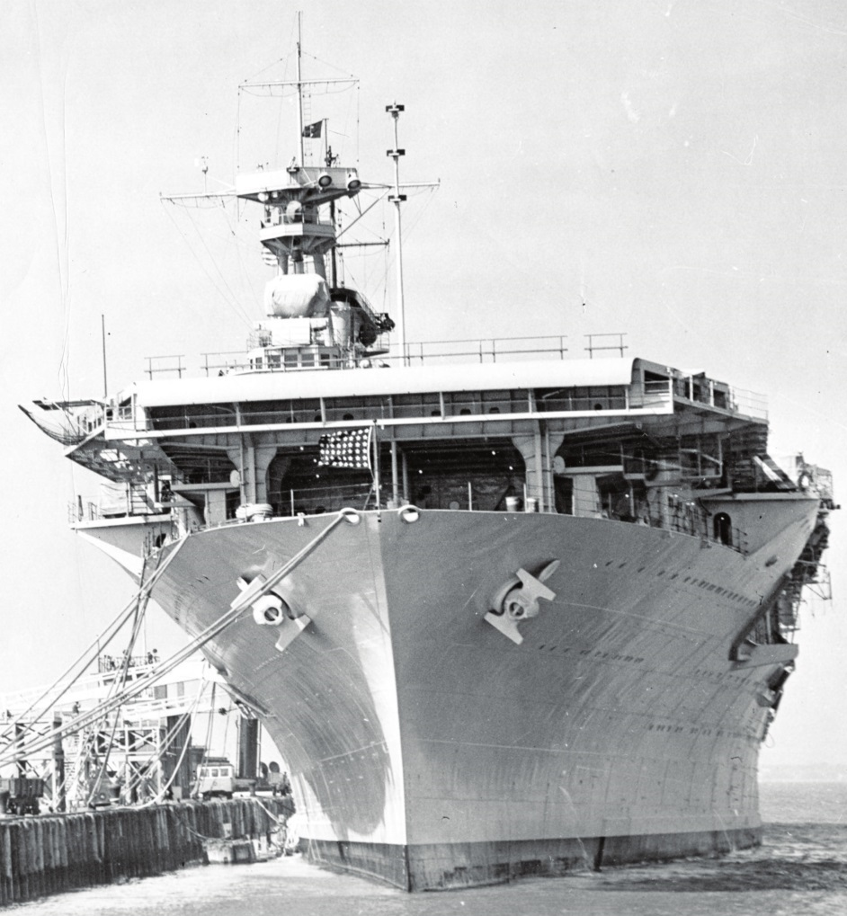 The U.S. Navy aircraft carrier USS Yorktown (CV-5) docked at Naval Station Norfolk, Virginia (USA), in October 1937.